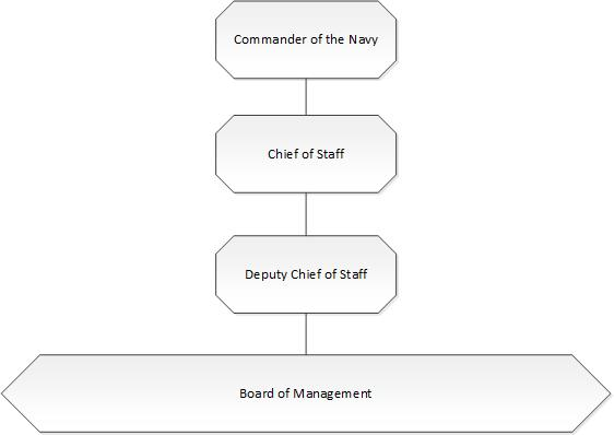 Organisational Chart of the Sri lankan navy